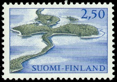 Postage stamp depicting the Punkaharju ridge in the Punkaharju municipality of Finland